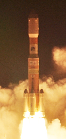 H-IIB Launch Vehicle Test Flight 1, launching H-II Transfer Vehicle (HTV) Demonstration Flight (HTV-1).